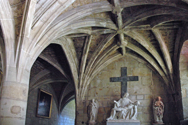 Lodève, cathedral. France